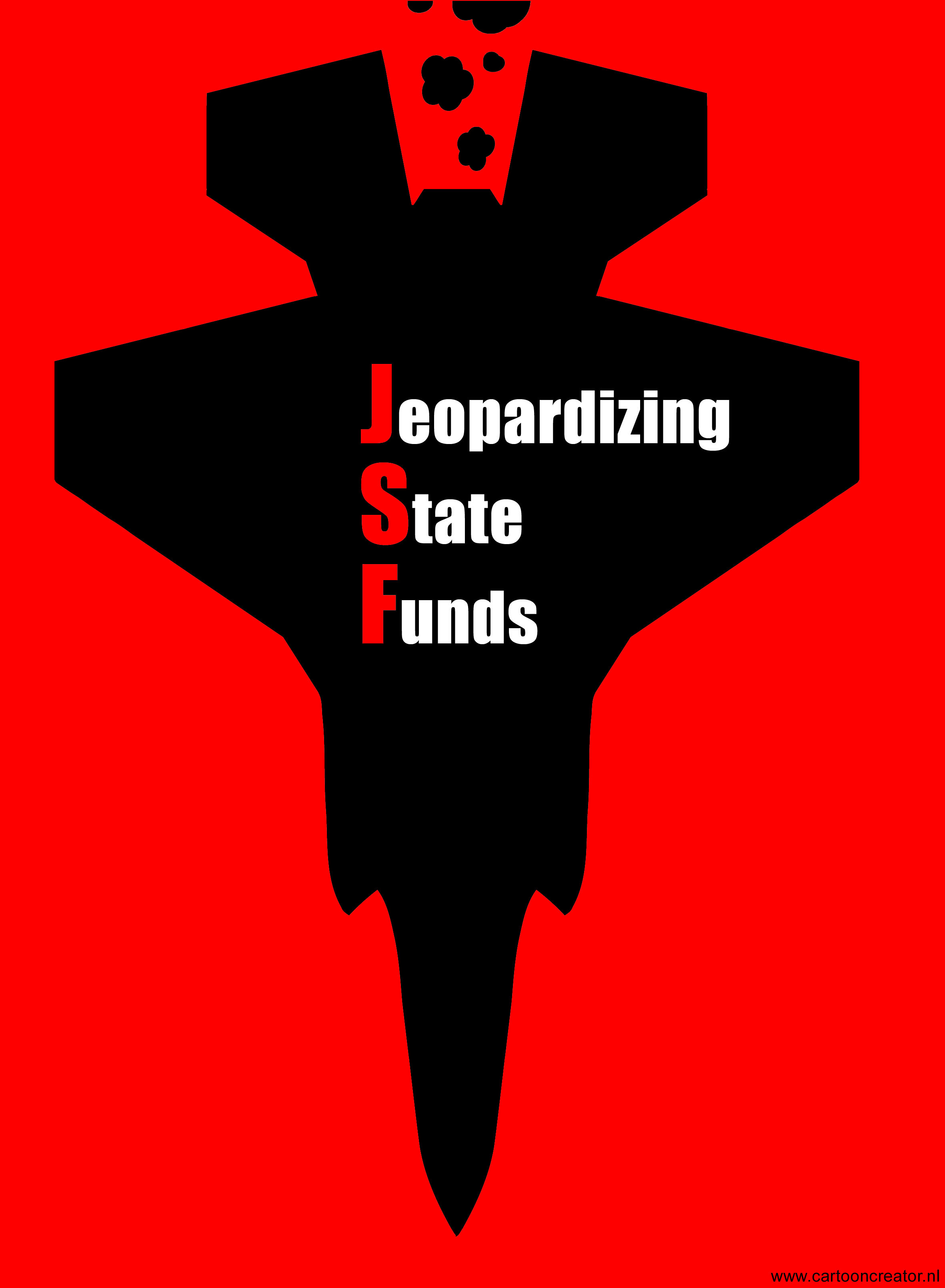 Protest against the Joint Strike Fighter